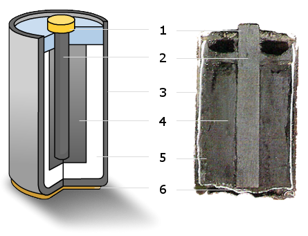 Zinc battery 1 - metal cap (+) 2 - carbon rod (positive electrode) 3 - zinc case (negative electrode) 4 - manganese(IV) oxide 5 - moist paste of ammonium chloride (electrolyte) 6 - metal bottom (-)